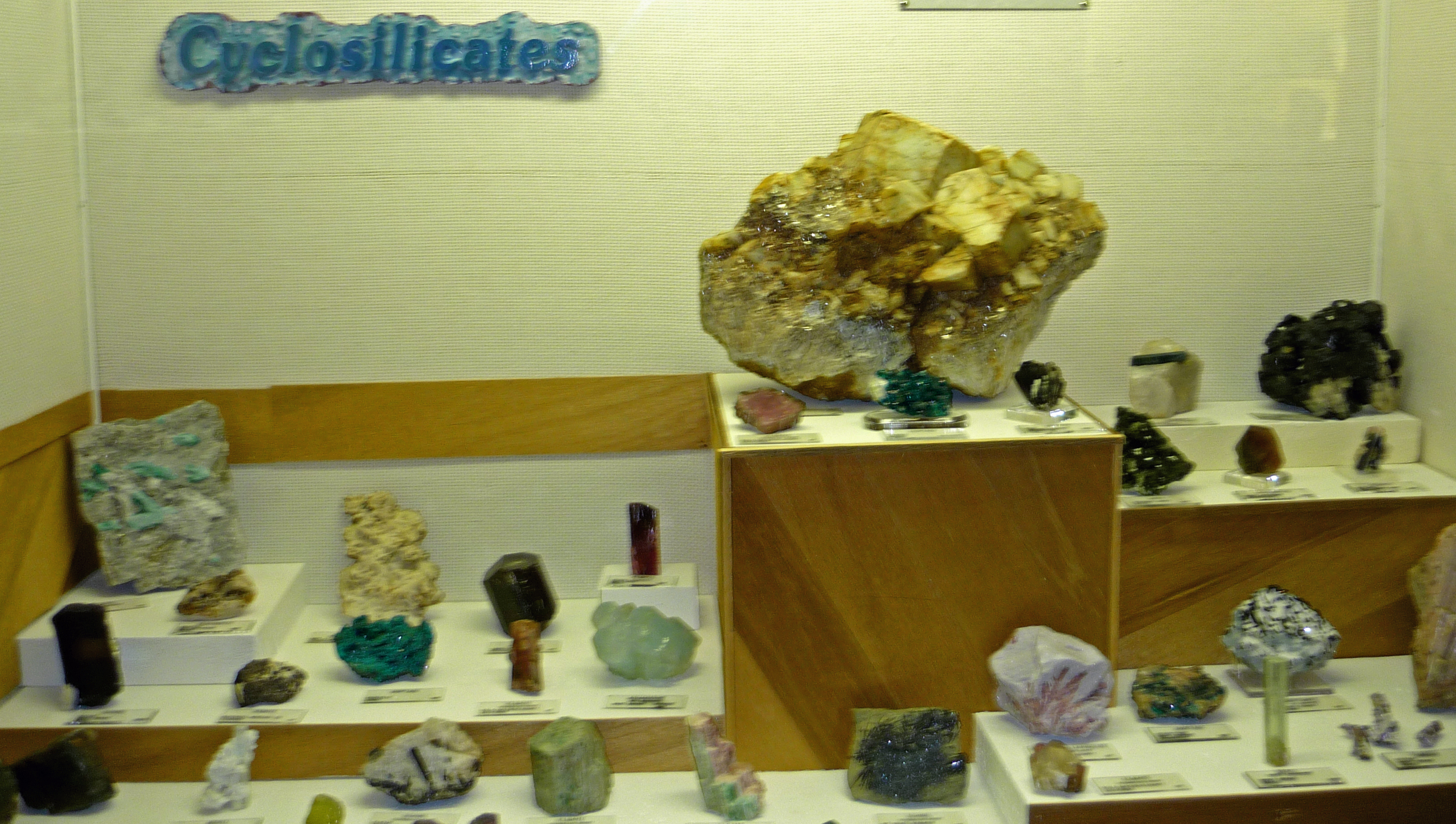 Exhibit showing Cyclosilicate examples. At the Museum of Geology — South Dakota School of Mines and Technology. Rapid City, South Dakota.